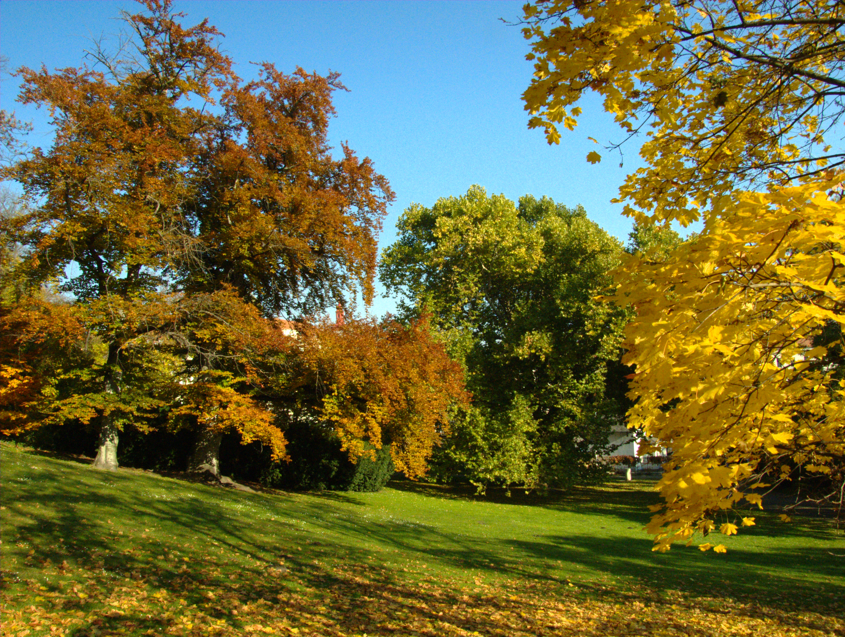 Kinského zahrada garden in autumn - close to the Palace of Judispurience in Smíchov, Prague, CZ